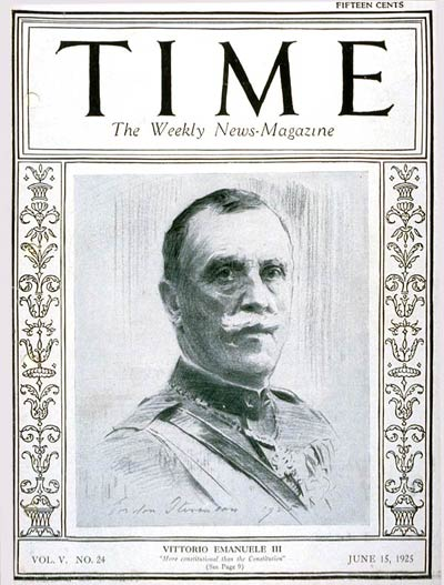 Victor Emmanuel III on Time magazine cover, 1925.